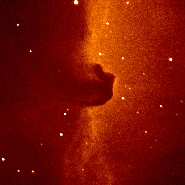 Barnard 33 (the Horsehead Nebula) Taken with a 16" Meade LX200 telescope and SBIG ST-L digital camera at the Barus & Holley Observatory in Providence, RI wtih an H alpha filter. Composite of images taken on 2007-01-03 and 2007-01-27.